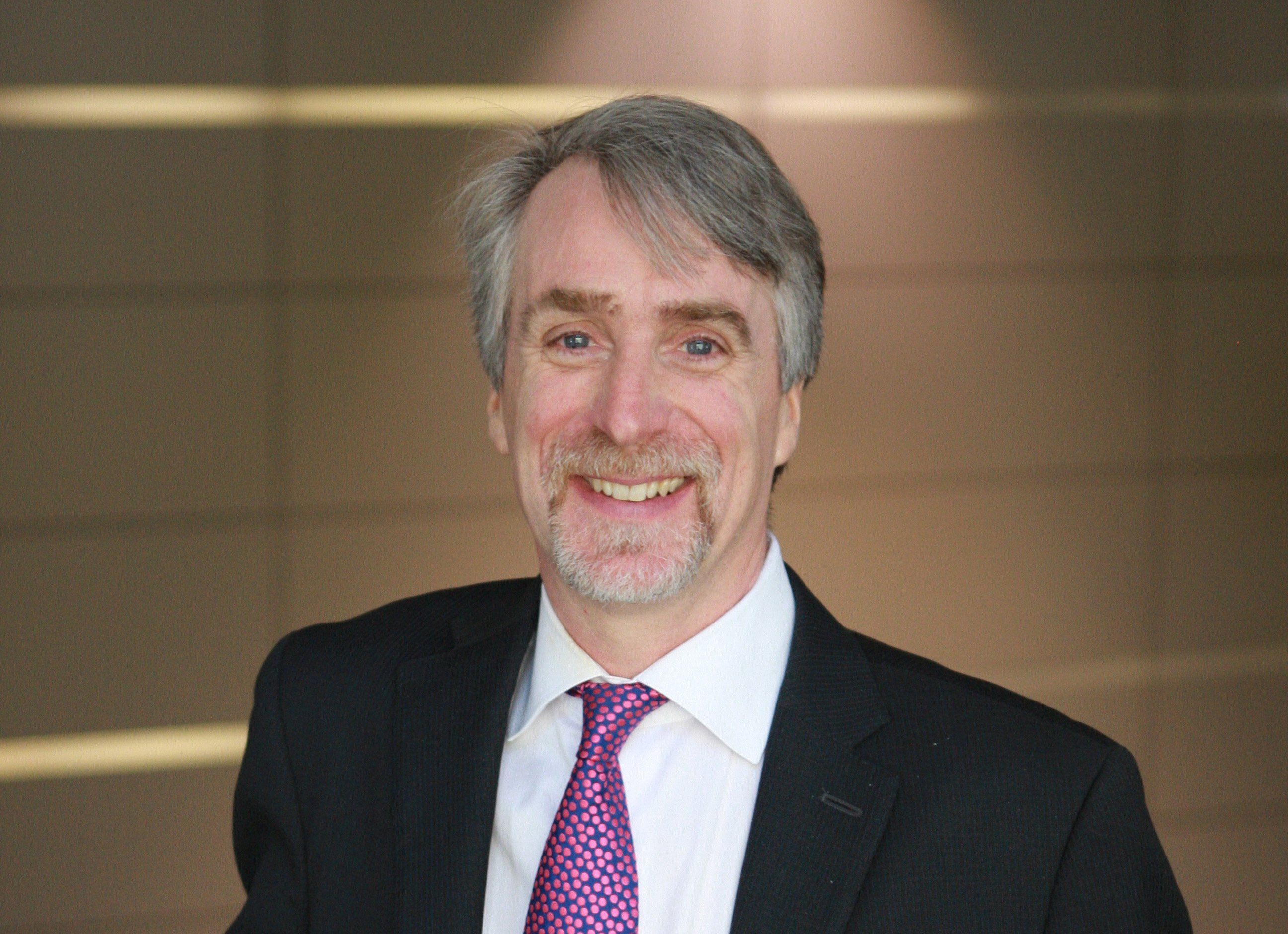 Professional headshot of Stephen Balkam